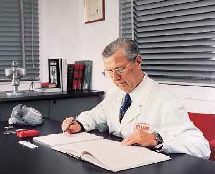 Dr. Eng. Arturo Gilardoni, Gilardoni Spa founder